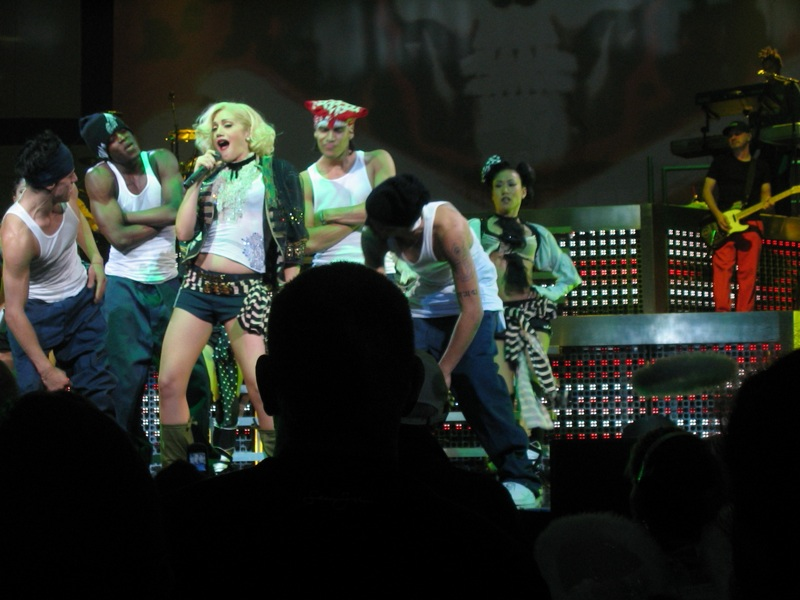 Gwen Stefani performing "Rich Girl" at the TD Banknorth Garden in Boston Massachusetts, United Statesgwen stefani + harujuki